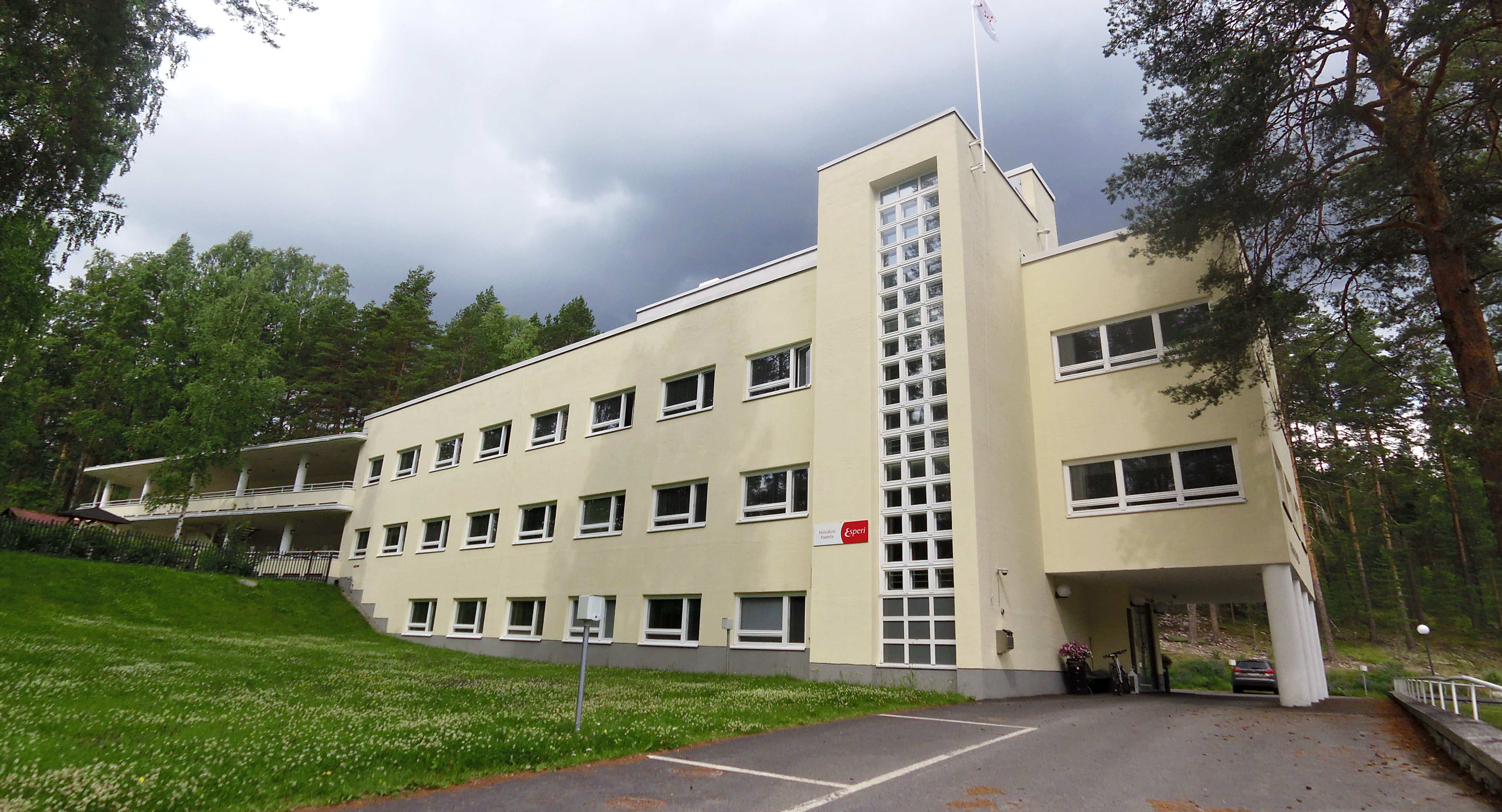 Hoivakoti Paatela in Kinkomaa, Muurame, Finland.